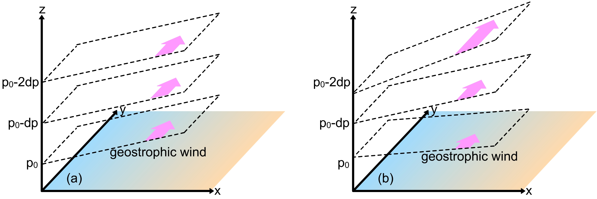 Thermal wind is the change with height of the speed and direction of the wind. This diagram explains its cause: a) No increase of wind with height in a barotropic airmass b)Increase of wind due to the change of temperature with height in a baroclinic airmass